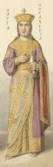 Pulcheria